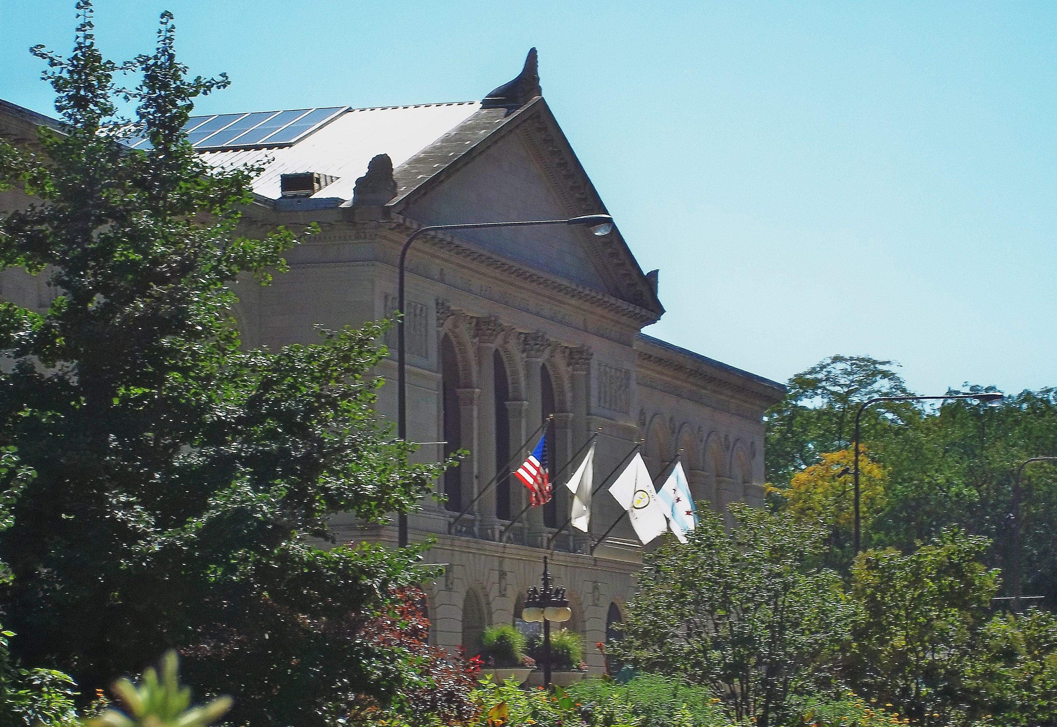 Art Institute of Chicago Maim Building from across Michigan Avenue from the North